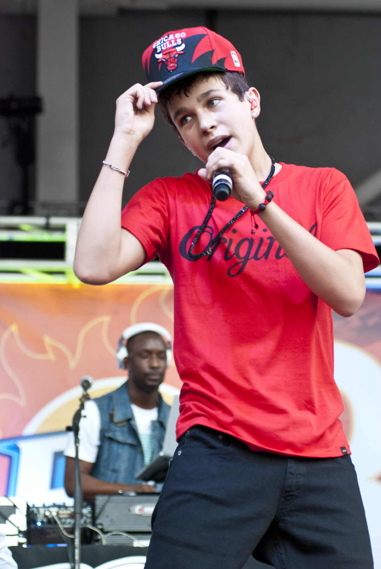 performs at B96 Summerbash on June 16, 2012. Toyota Park, Bridgeview, IL, USA. Photo by Adam Bielawski